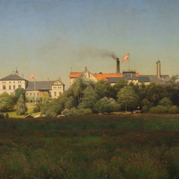 View of the Ceres Brewery in Aarhus, Denmark.